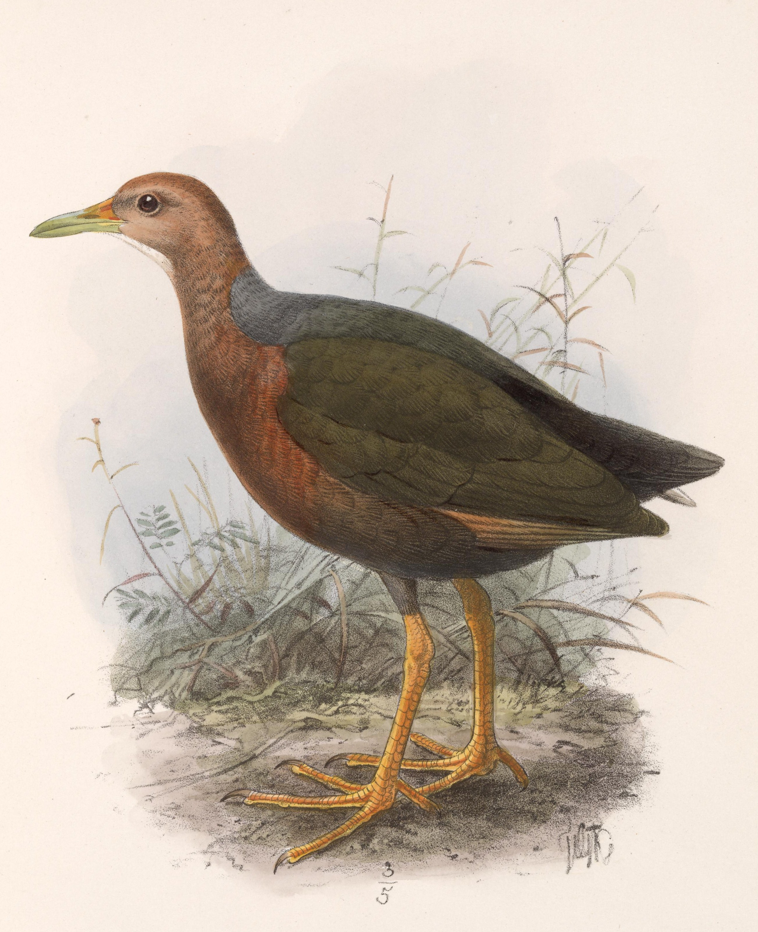 « Aramides axillaris » = Aramides axillaris (Rufous-necked Wood Rail)